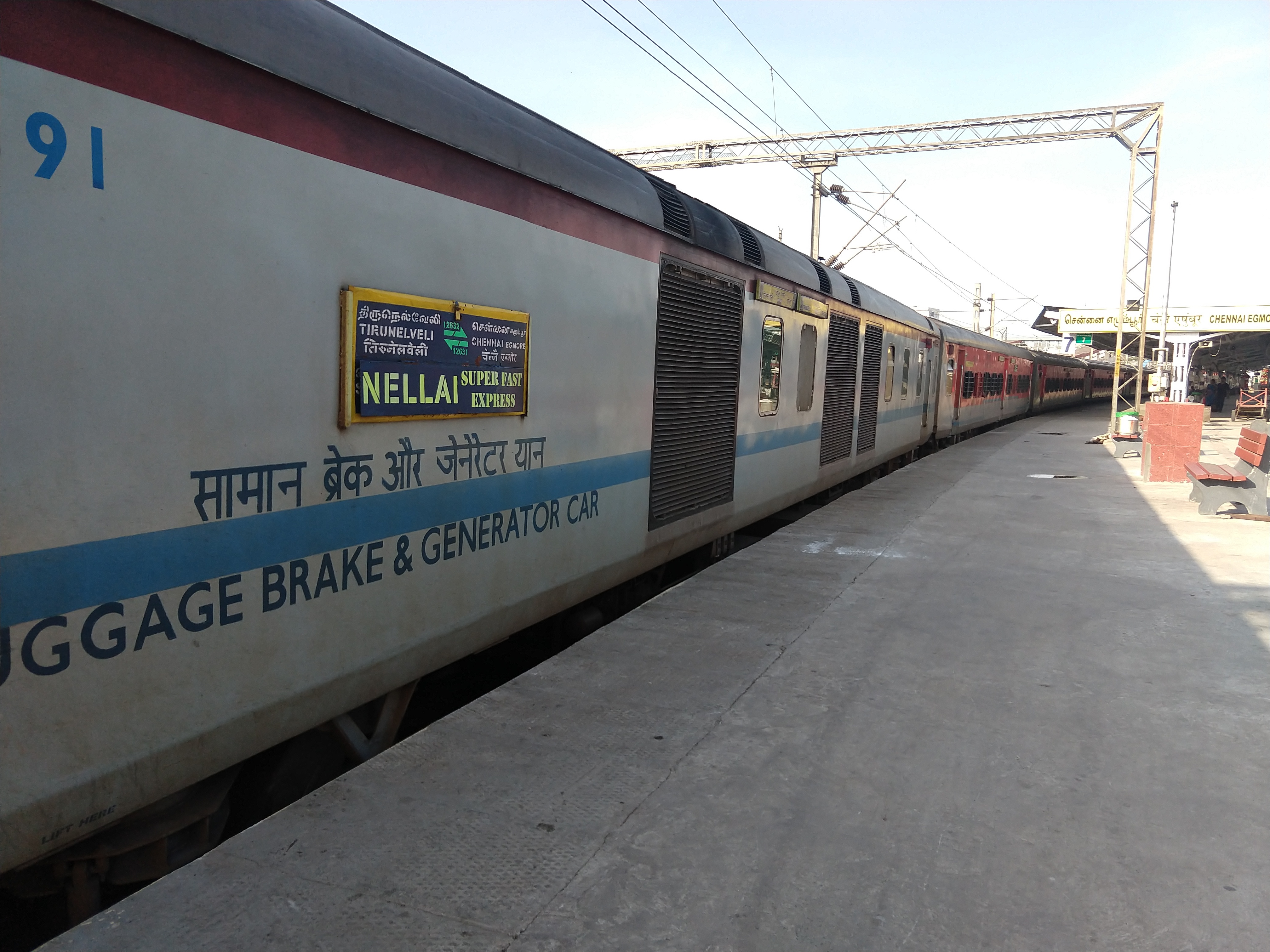 Train ready to depart from Chennai Egmore